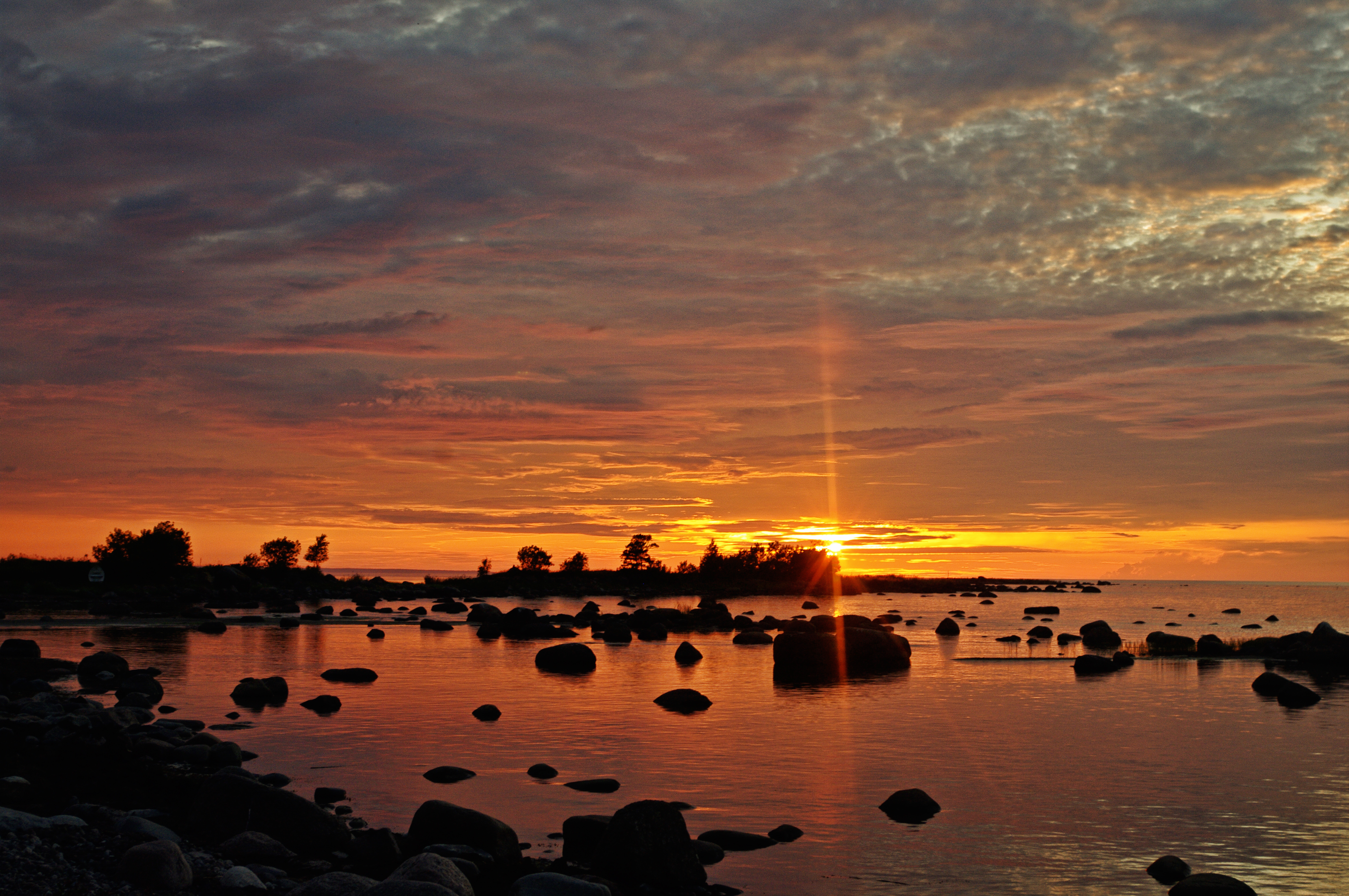 Sunset on Letipea Peninsula